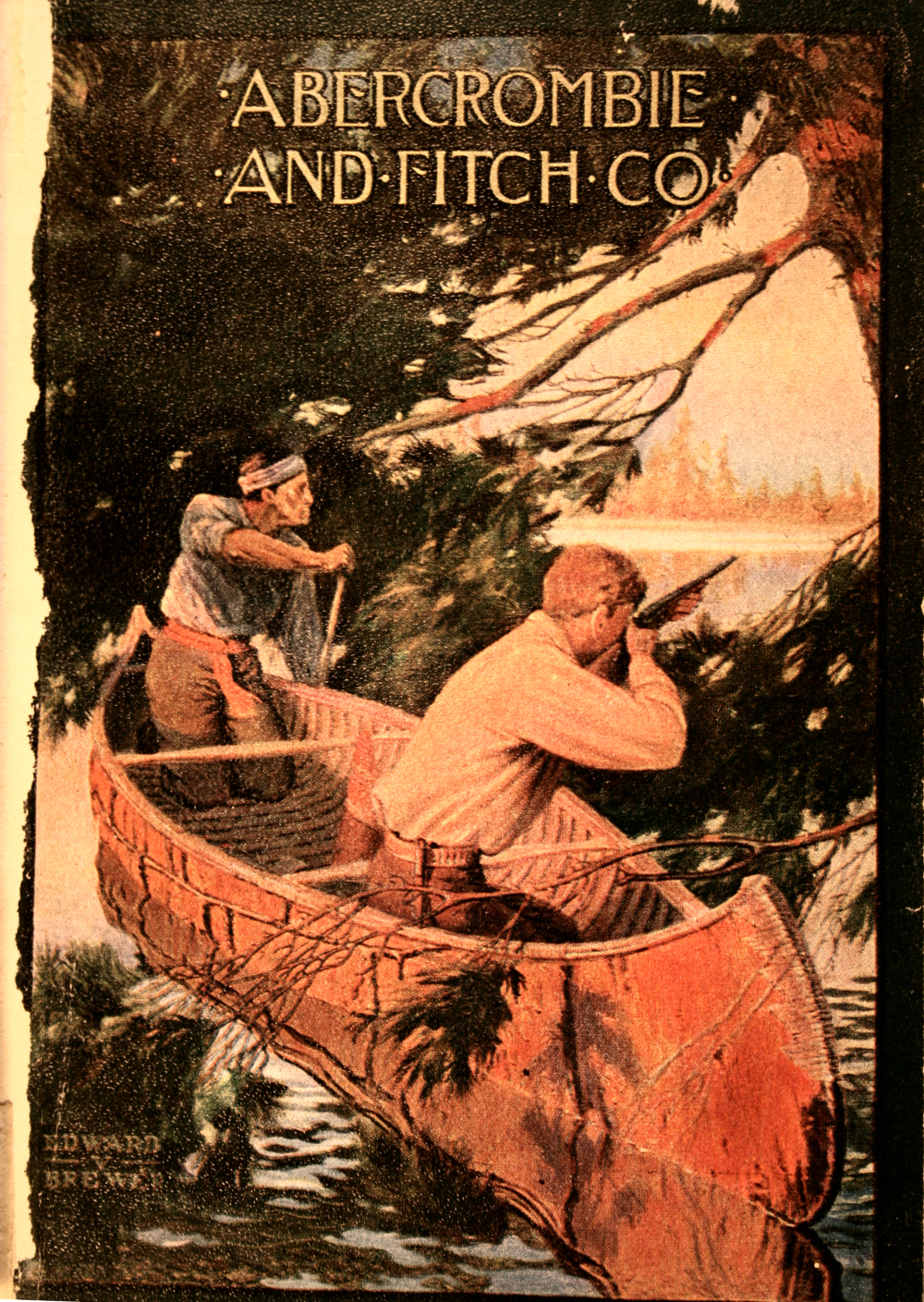 Inside Cover Page from 1909 Abercrombie & Fitch Catalog, their first catalog